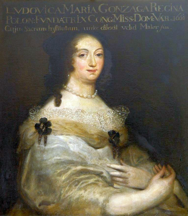 Portrait of Queen Marie Louise Gonzaga (later Queen of Poland).